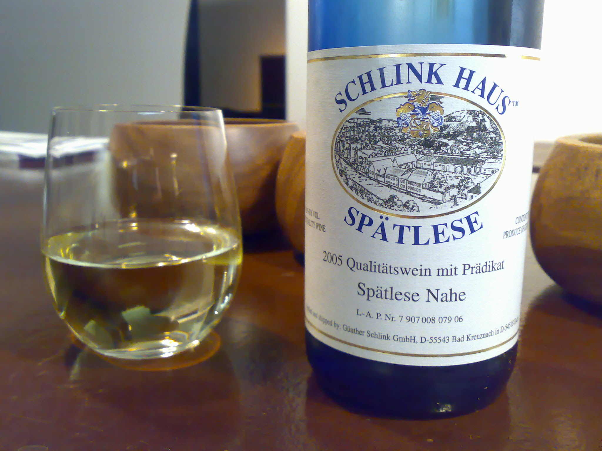 A German Riesling from the Nahe region